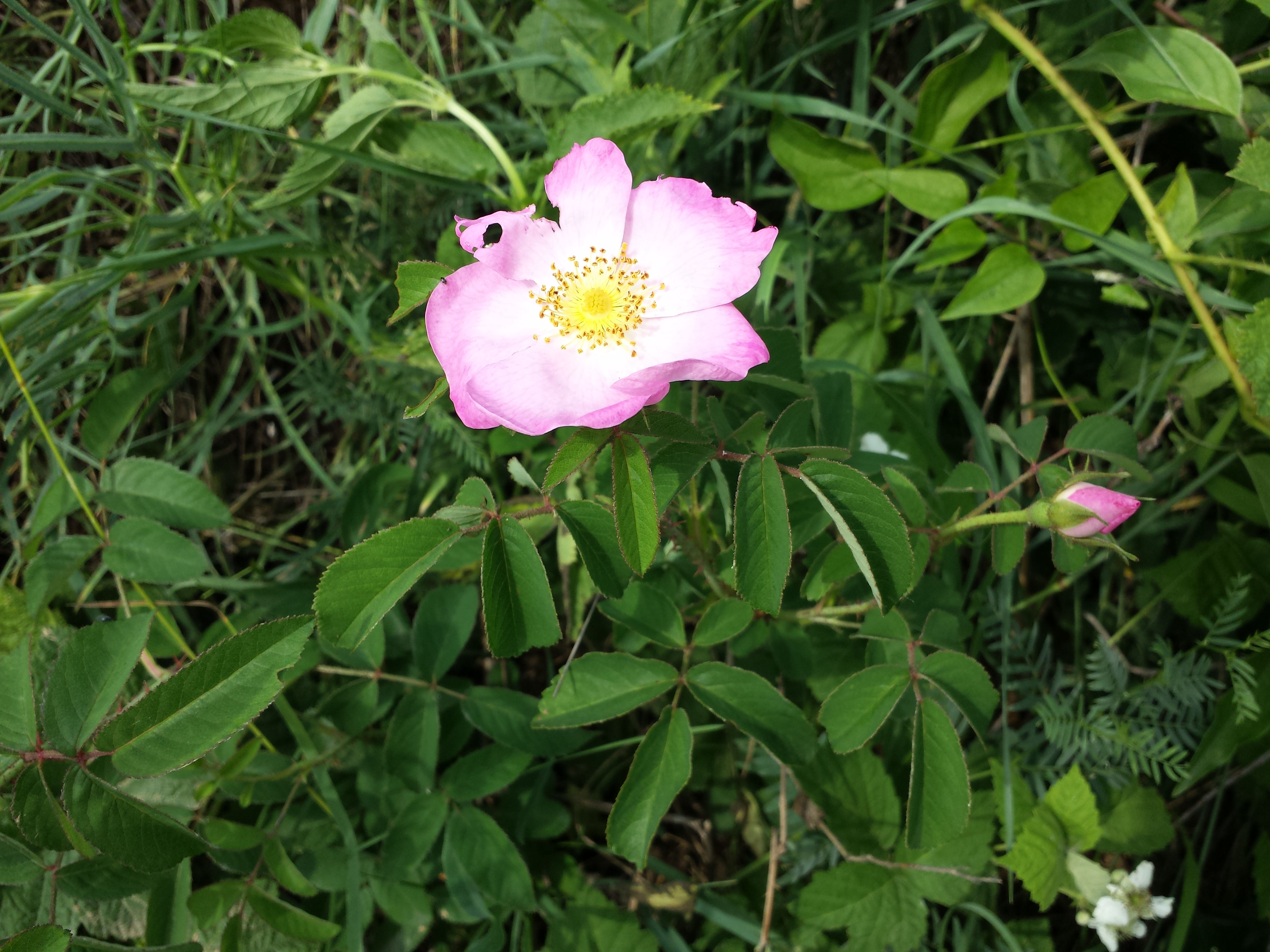 Habitus Taxonym: Rosa gallica ss Fischer et al. EfÖLS 2008 ISBN 978-3-85474-187-9 Location: Lange Leite near Herzogbirbaum, district Korneuburg, Lower Austria - ca. 300 m a.s.l. Habitat: slope